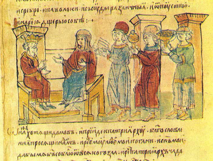 Radziwiłł Chronicle